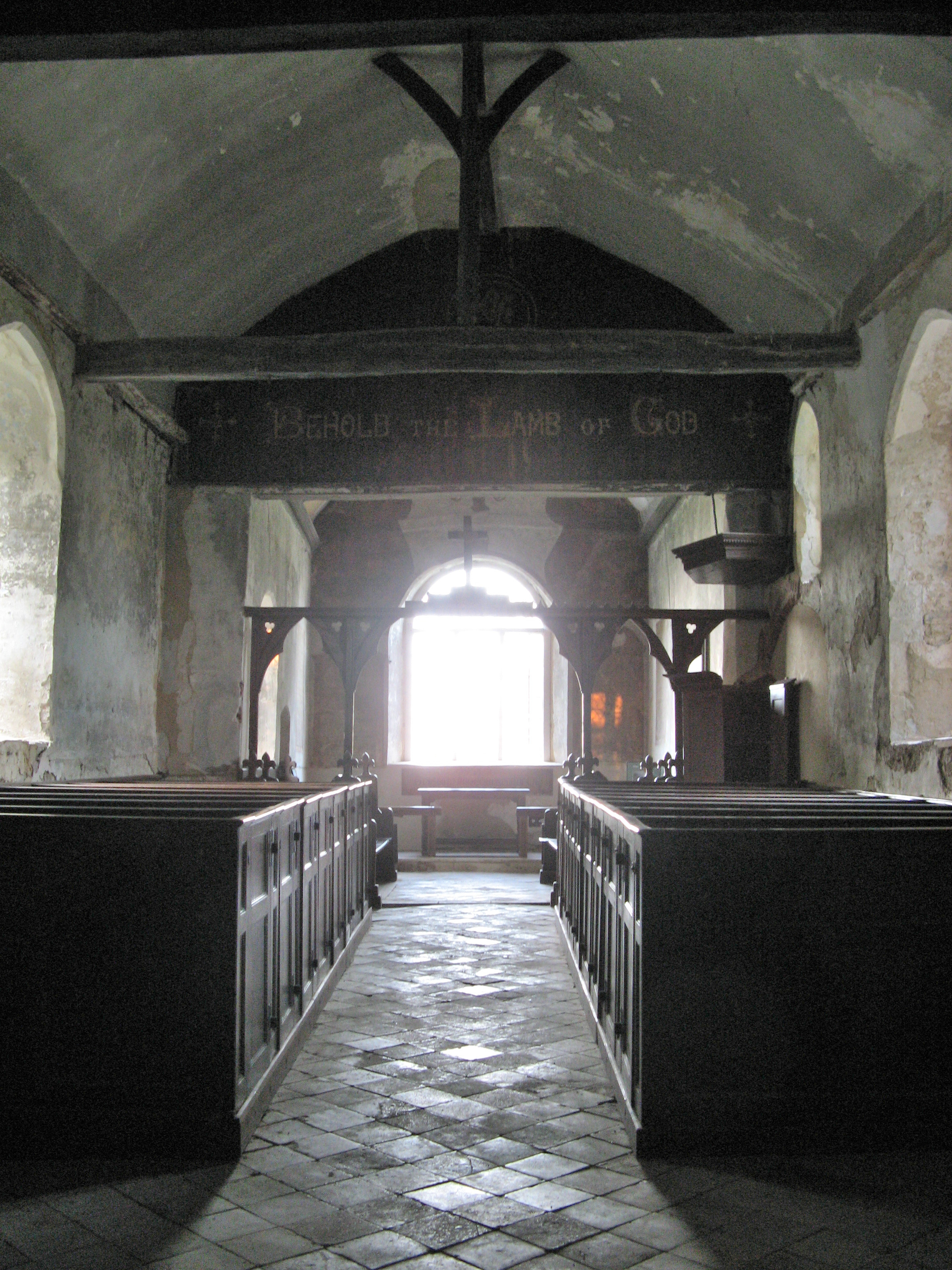 Interior of St Mary's Church, Mundon, Essex.